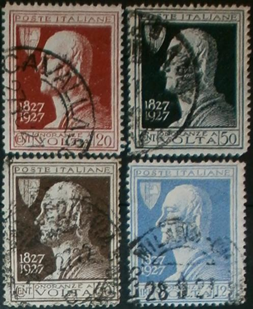 Serie del centenario della morte di Alessandro Volta - 1927 - francobolli del Regno d'Italia - Stamps of the Kingdom of Italy - 100° anniversary of Alessandro Volta death